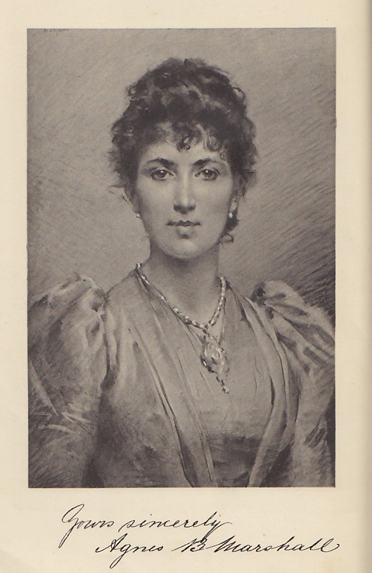 Print of Agnes Marshall (1855-1905)